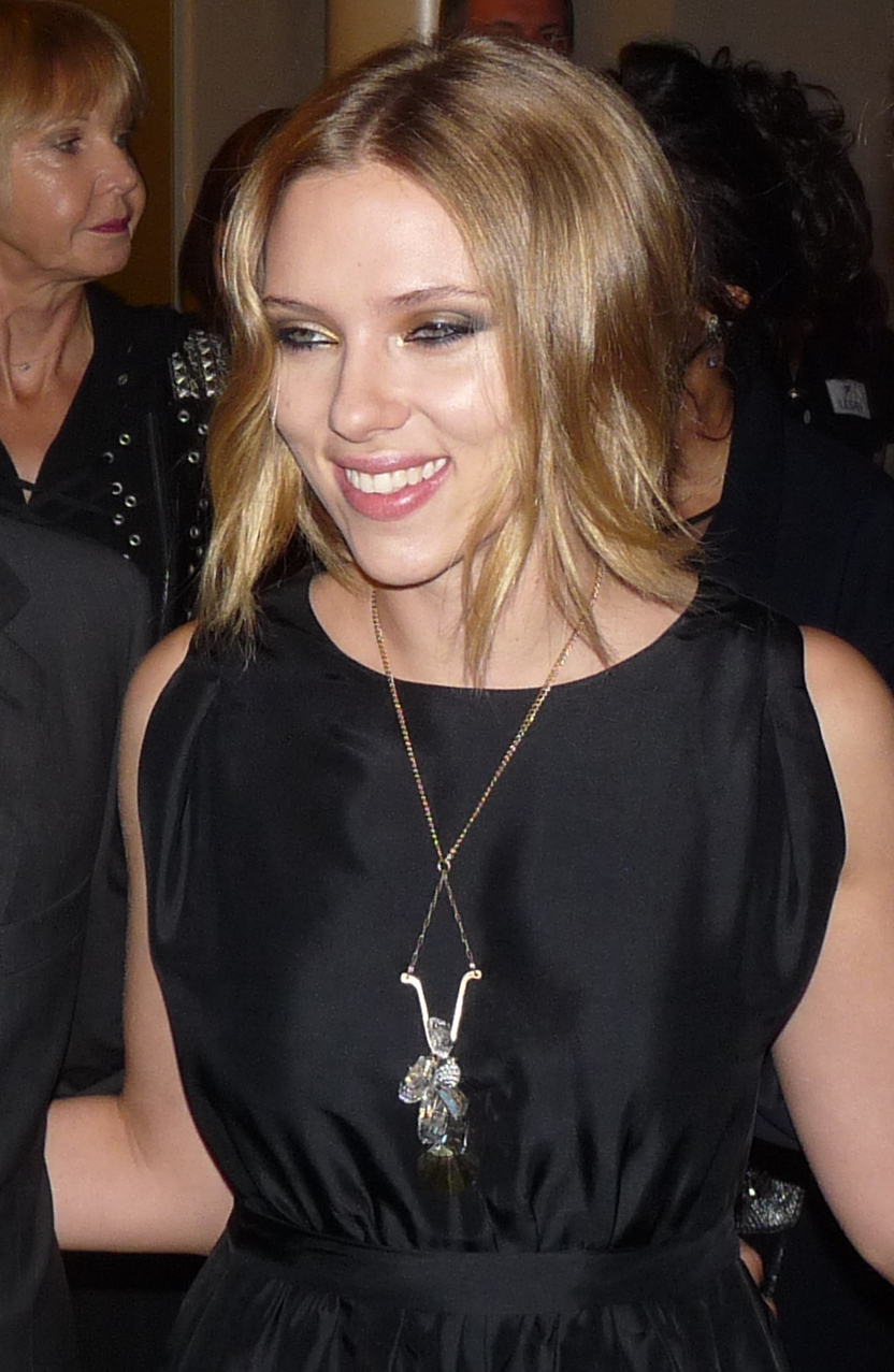 Actress Scarlett Johansson at the Mango Fashion Awards in Barcelona (October 2010).